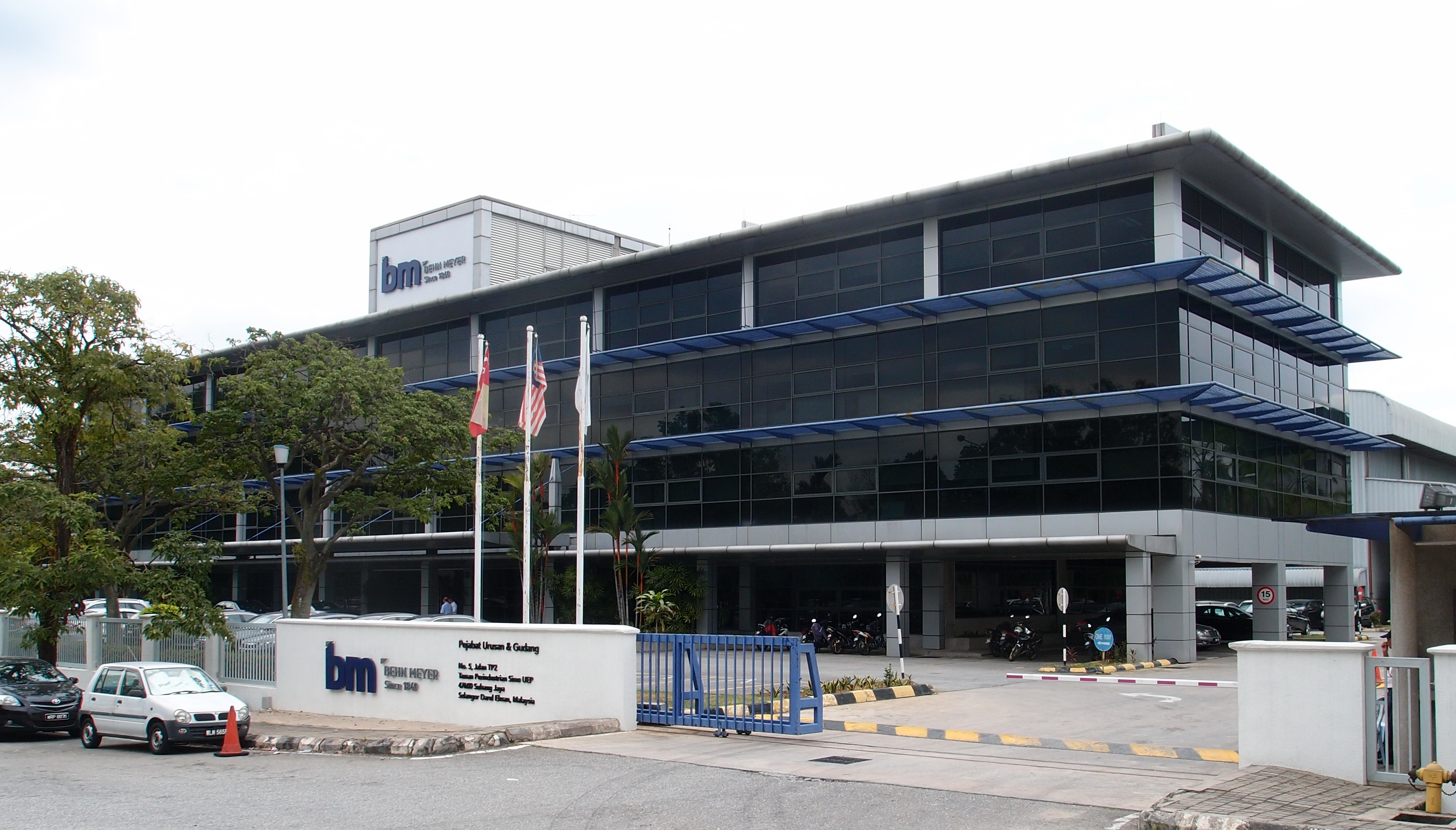 Building of Behn Meyer in Subang Jaya, next to Kuala Lumpur, Malaysia